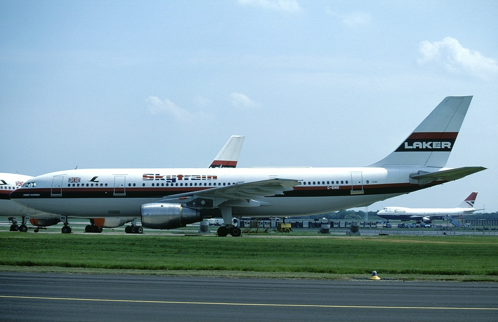 Laker Airways Airbus A300B4-203 G-BIMB at London Stansted Airport